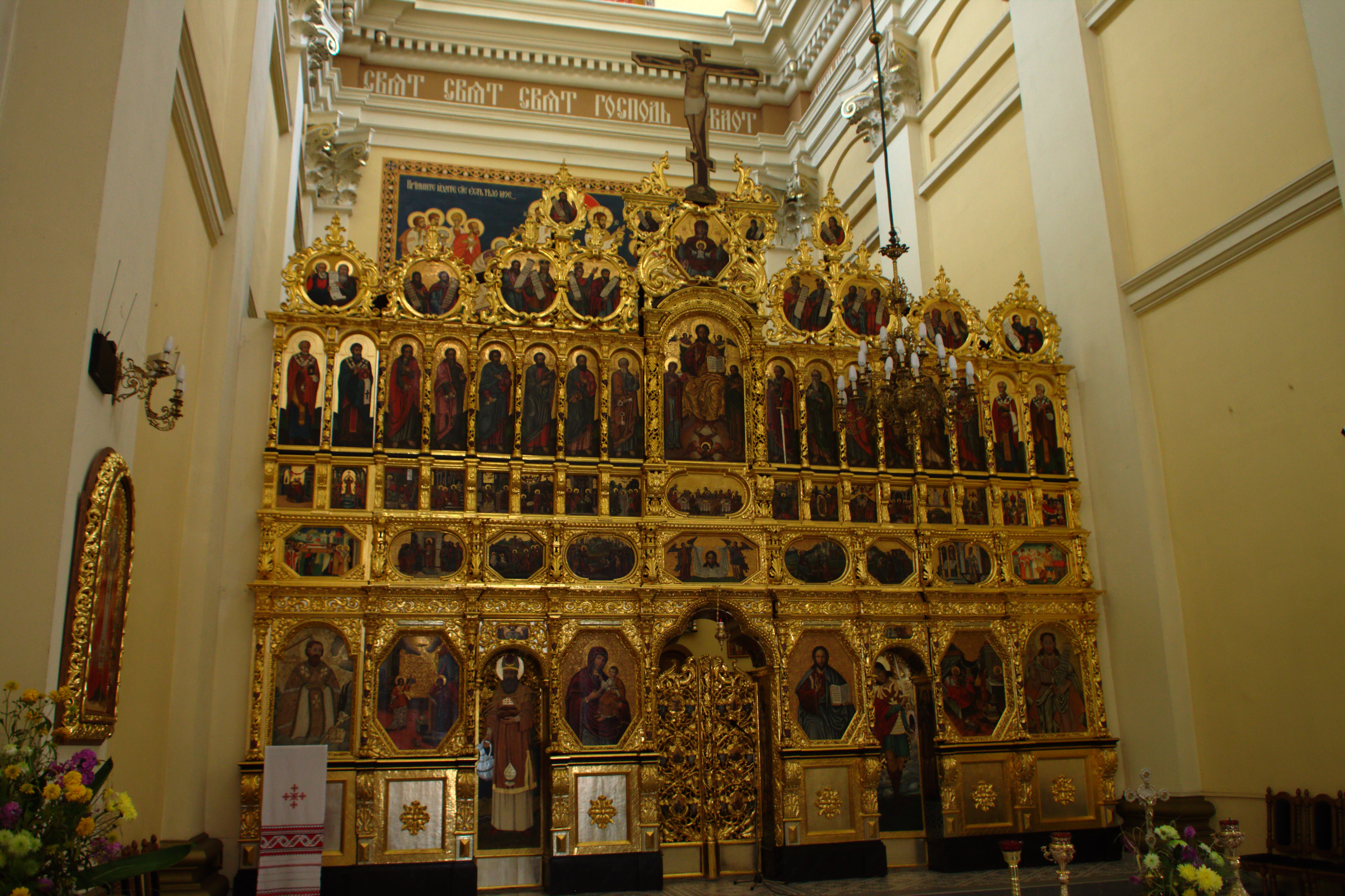 Iconostasis of the greek catholic cathedral of Joan the Baptist in Przemyśl, Podkarpackie voiovdeship, Poland